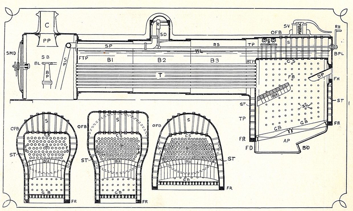 Locomotive boiler, sectioned view Diagram showing construction of a locomotive boiler. Also cross sections of round-topped, Belpaire and Wootten fireboxes. Note that this boiler is not superheated. KeyAPAsh PanB1Boiler Barrel (1st ring)B2Boiler Barrel (2nd ring)B3Boiler Barrel (3rd ring)BABrick ArchBDBack DamperBLBlowerBPBlast PipeBPLBack PlateBTPBack Tube PlateCChimneyCSCrown SheetDPDeflector PlateFBFirebox (inner)FDFront DamperFHFire HoleFRFoundation RingFTPFront Tube PlateGBGrate BarsOFBOutside FireboxPPPetticoat PipeRRegulatorRHRegulator HandleRSRegulator SpindleSStaysSBSmokeboxSDSteam DomeSMDSmokebox DoorSPSteam PipeSSSling StaysSTScrew StaysSVSafety ValvesTTubesTPThroat PlateWLWater Level